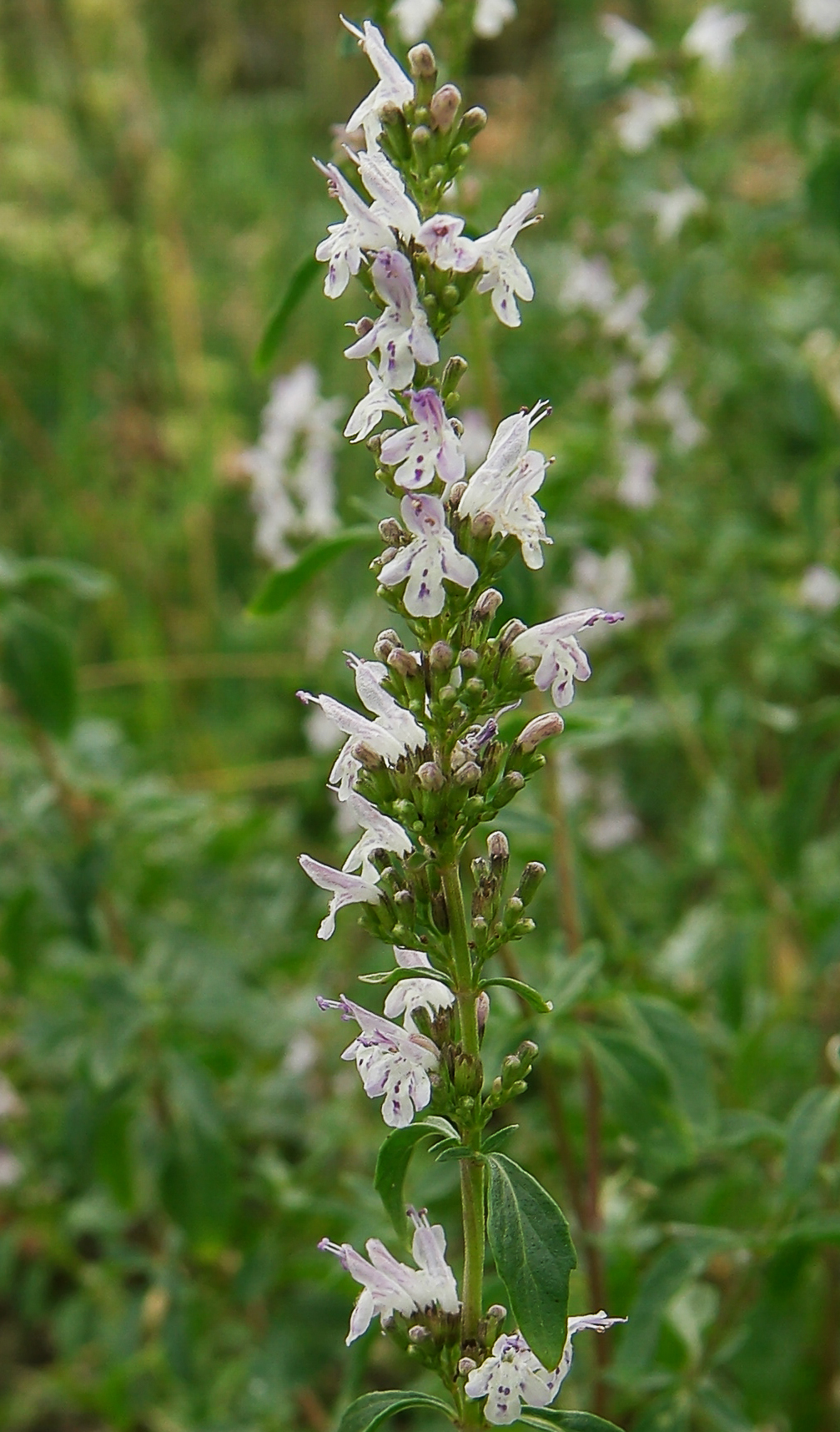 Clinopodium thymifolium from the wild